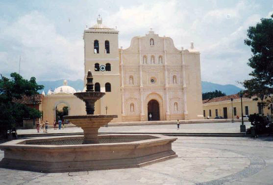 Cathedral of Comayagua, municipality in the Honduran department of Comayagua.